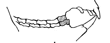 Teeth of a koala, the first premolar is with dark color